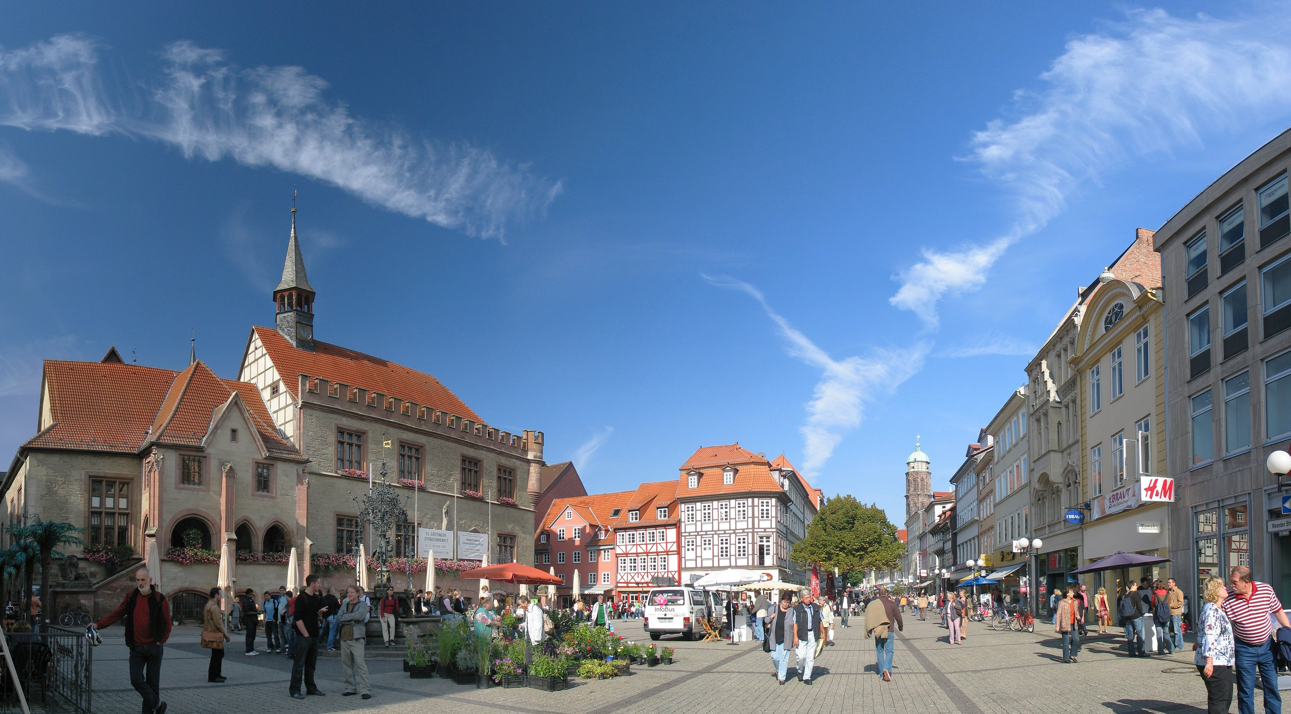 Goettingen marketplace with old city hall, Gaenseliesel fountain and pedestrian zone. Edited by Antilived.